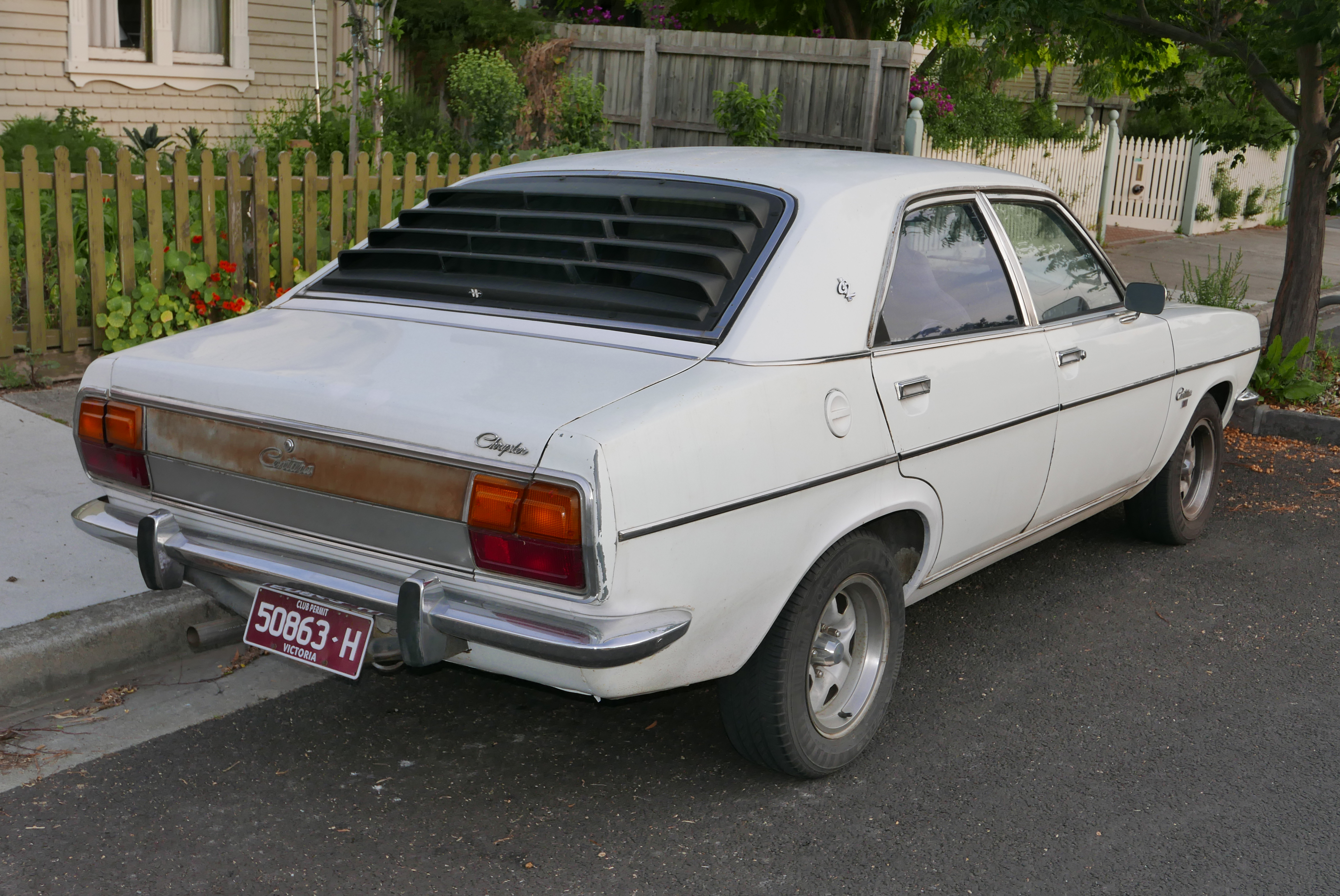 1975–1977 Chrysler Centura (KB) GL sedan. Photographed in Brunswick, Victoria, Australia.